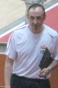 Mikhail Bondarev - futsal coach, european champion 1999